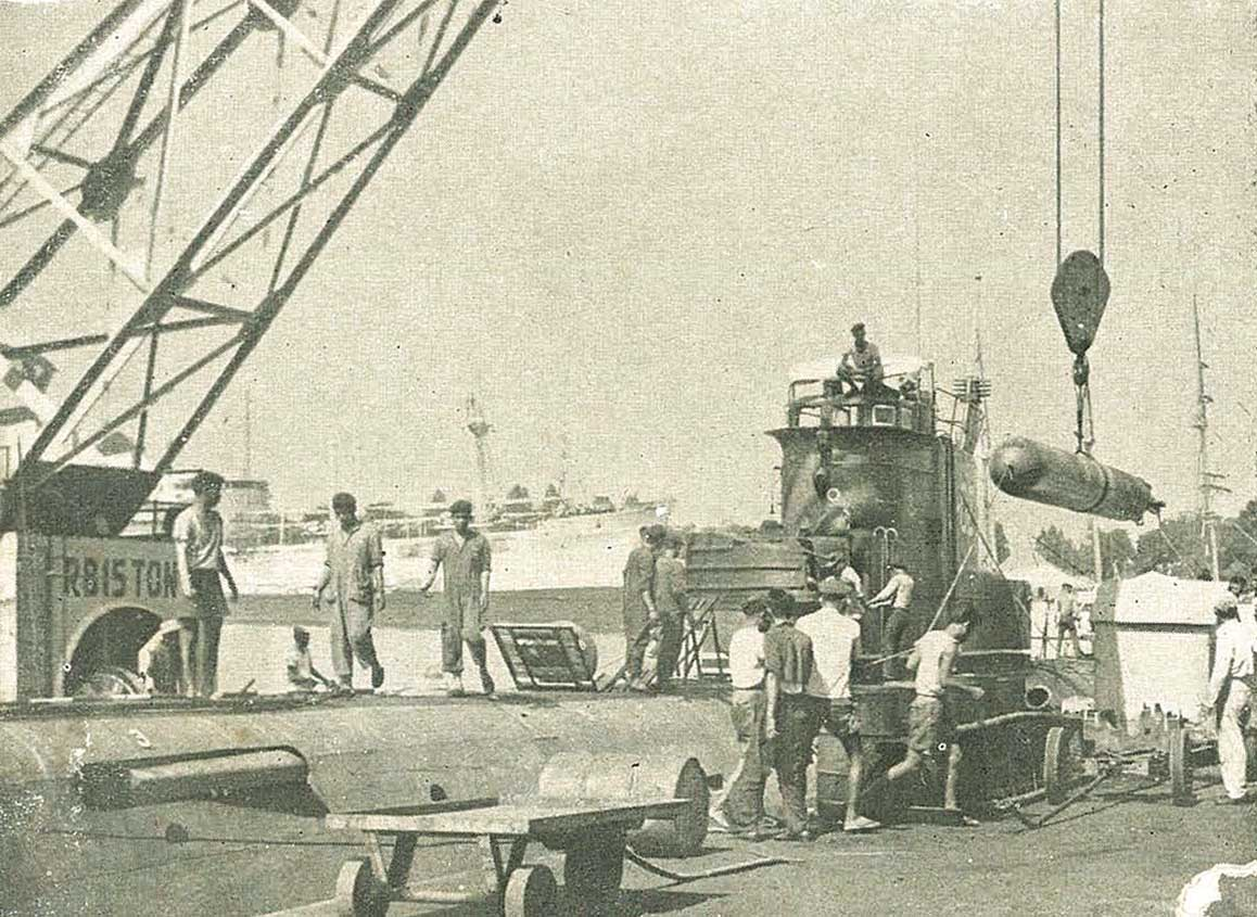 RI Nanggala being loaded with torpedoes